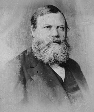 Pavel Ivanovich Melnikov